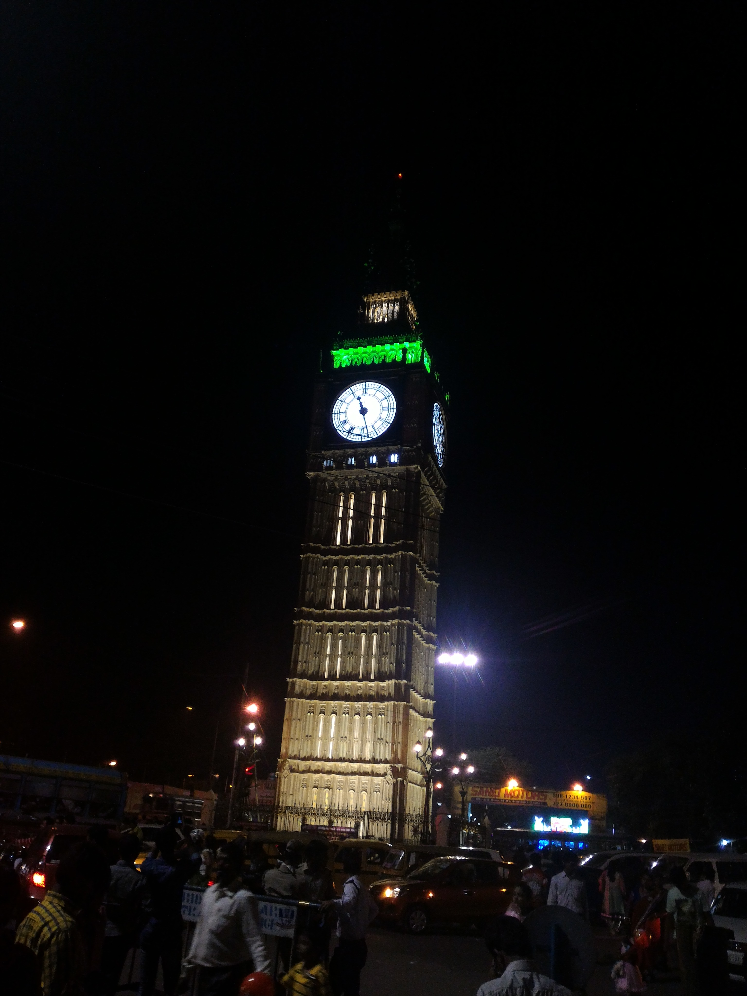 A replica of the Big Ben in the VIP Road, Lake Town crossing in Lake Town, Kolkata.